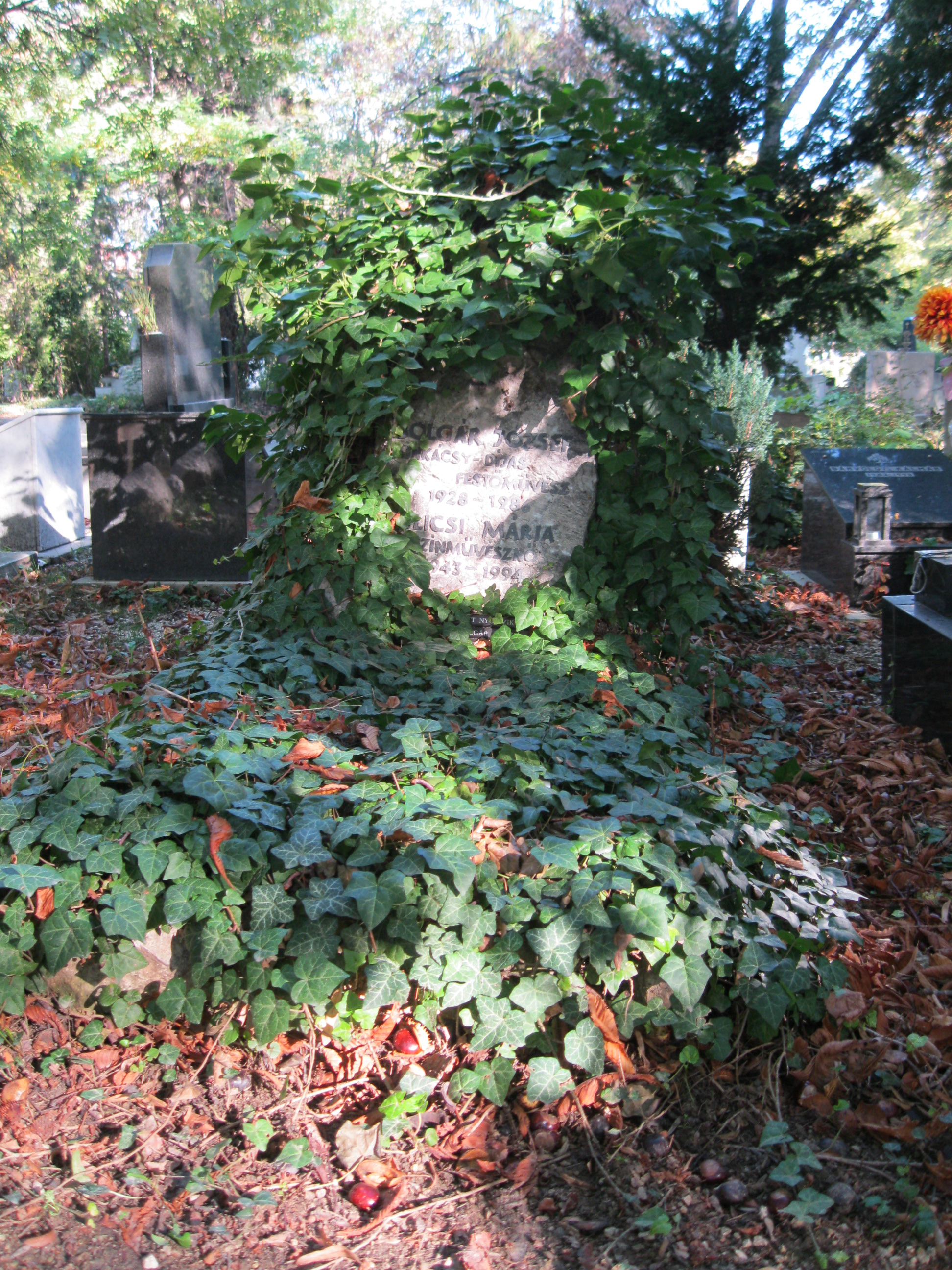 Tomb of Mária Bilicsi and József Bolgár in Farkasréti Cemetery [1/1-1-3]